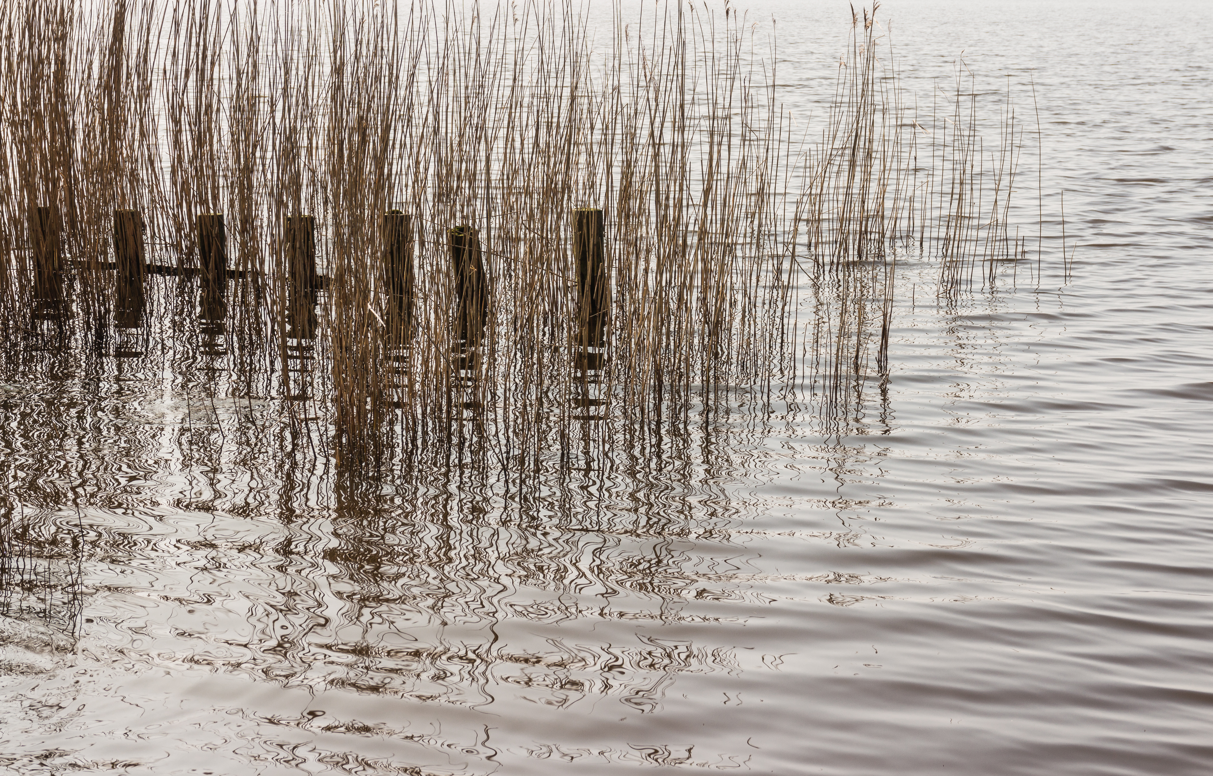 Goëngarijpsterpoelen (Frysk) Goaiïngarypster Puollen Breakwaters in the reeds.